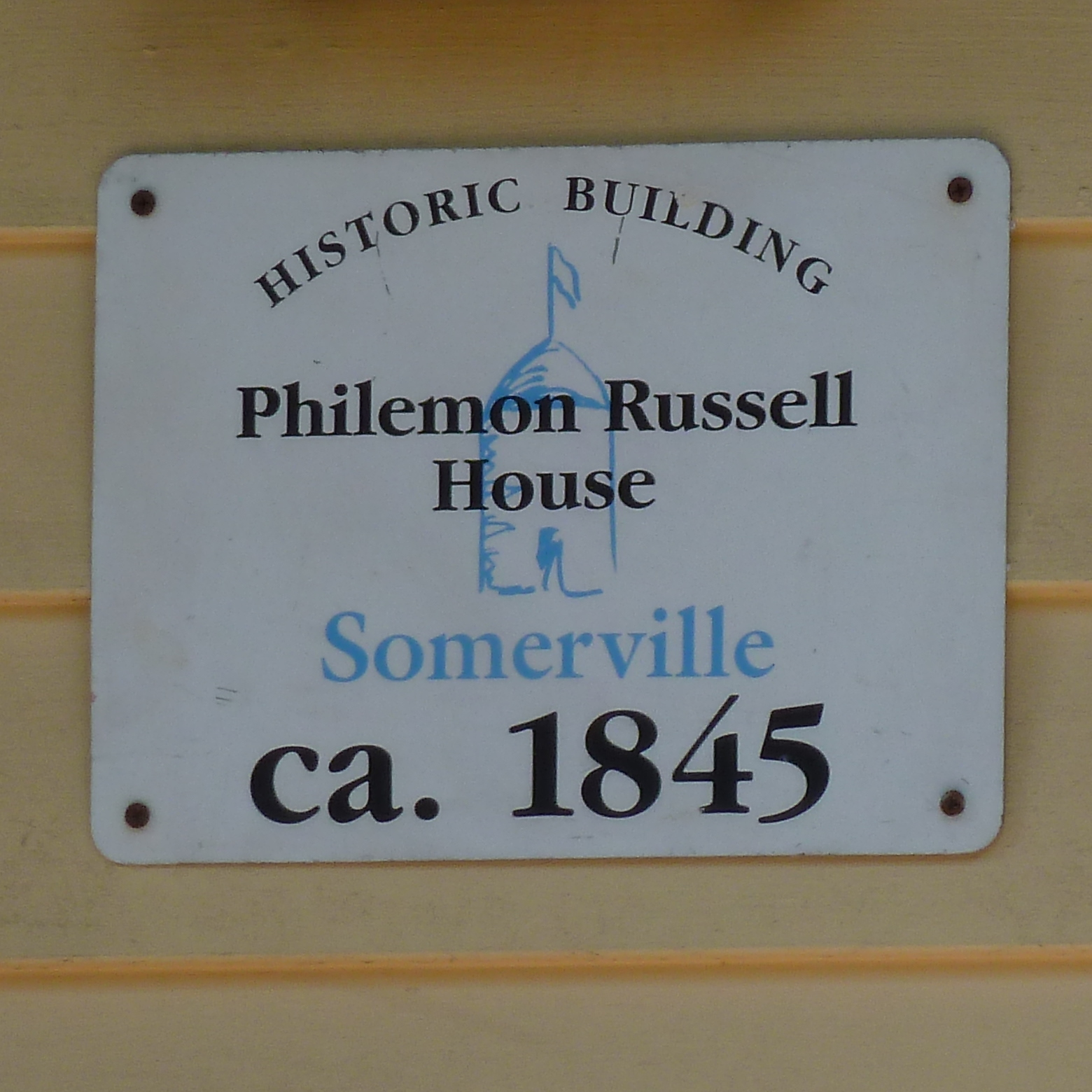 The Philemon Russell House is a historic house at 25 Russell Street in Somerville, Massachusetts. The Greek Revival structure was built in 1850 and added to the National Register of Historic Places in 1989.